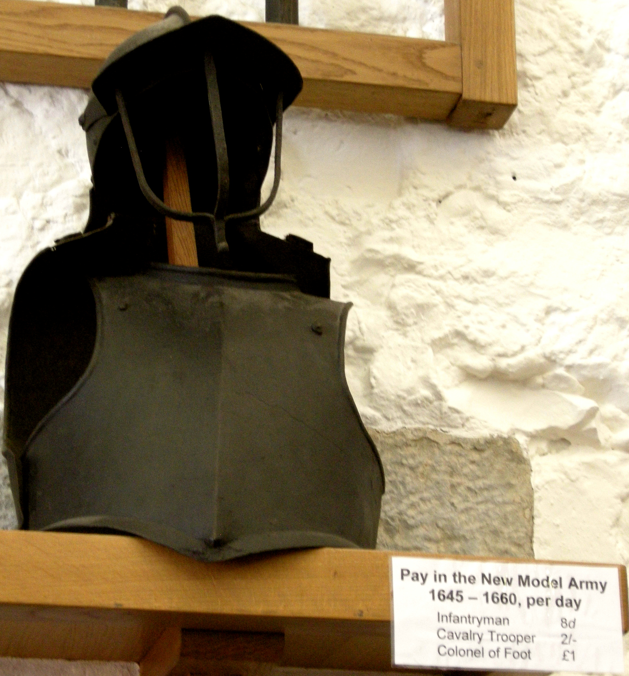 West Gate Towers and Museum, St Peter's Street, Canterbury, Kent. English Civil War armour with cuirass.